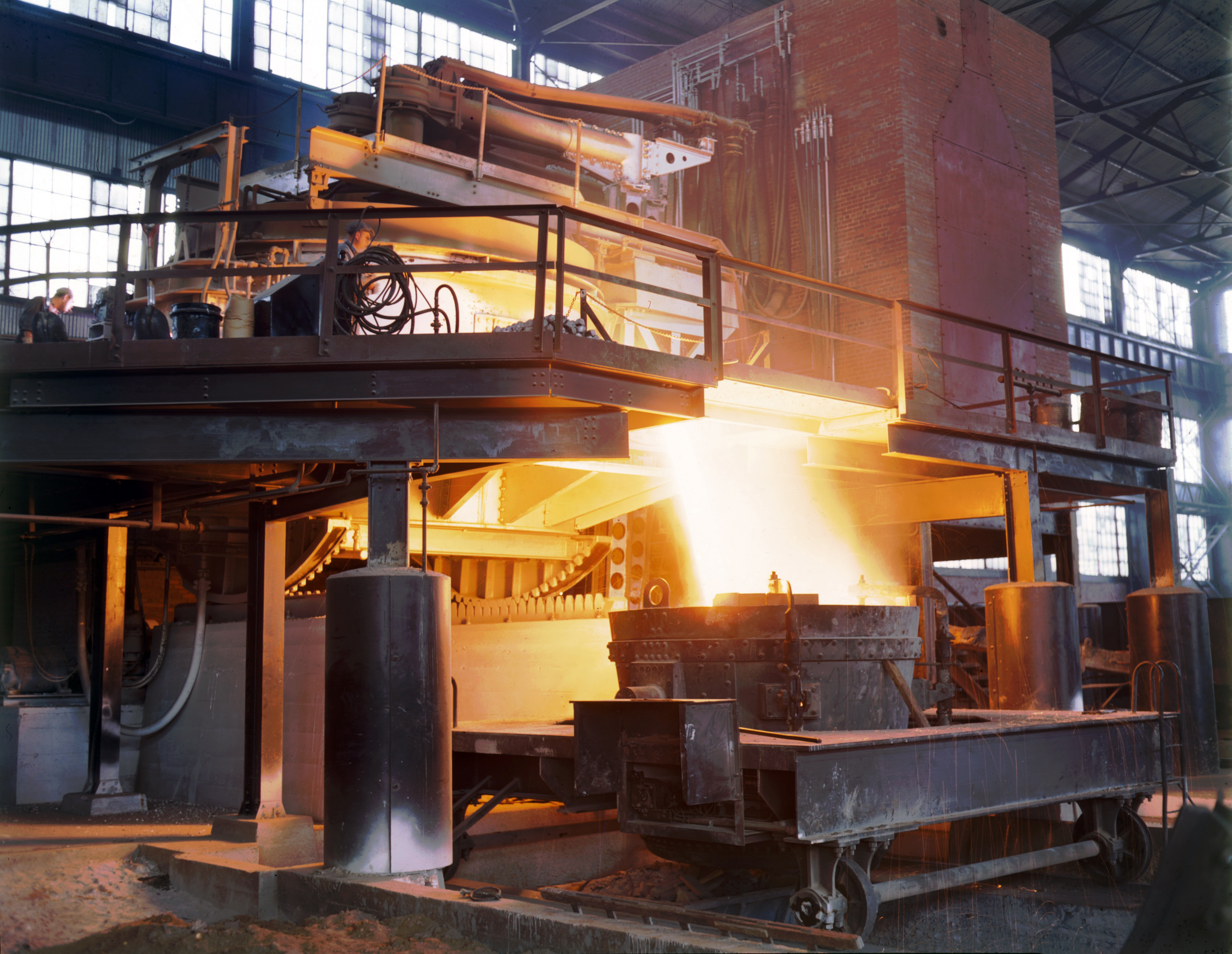 White-hot steel pours like water from a 35-ton electric furnace, Allegheny Ludlum Steel Corp., Brackenridge, Pa.